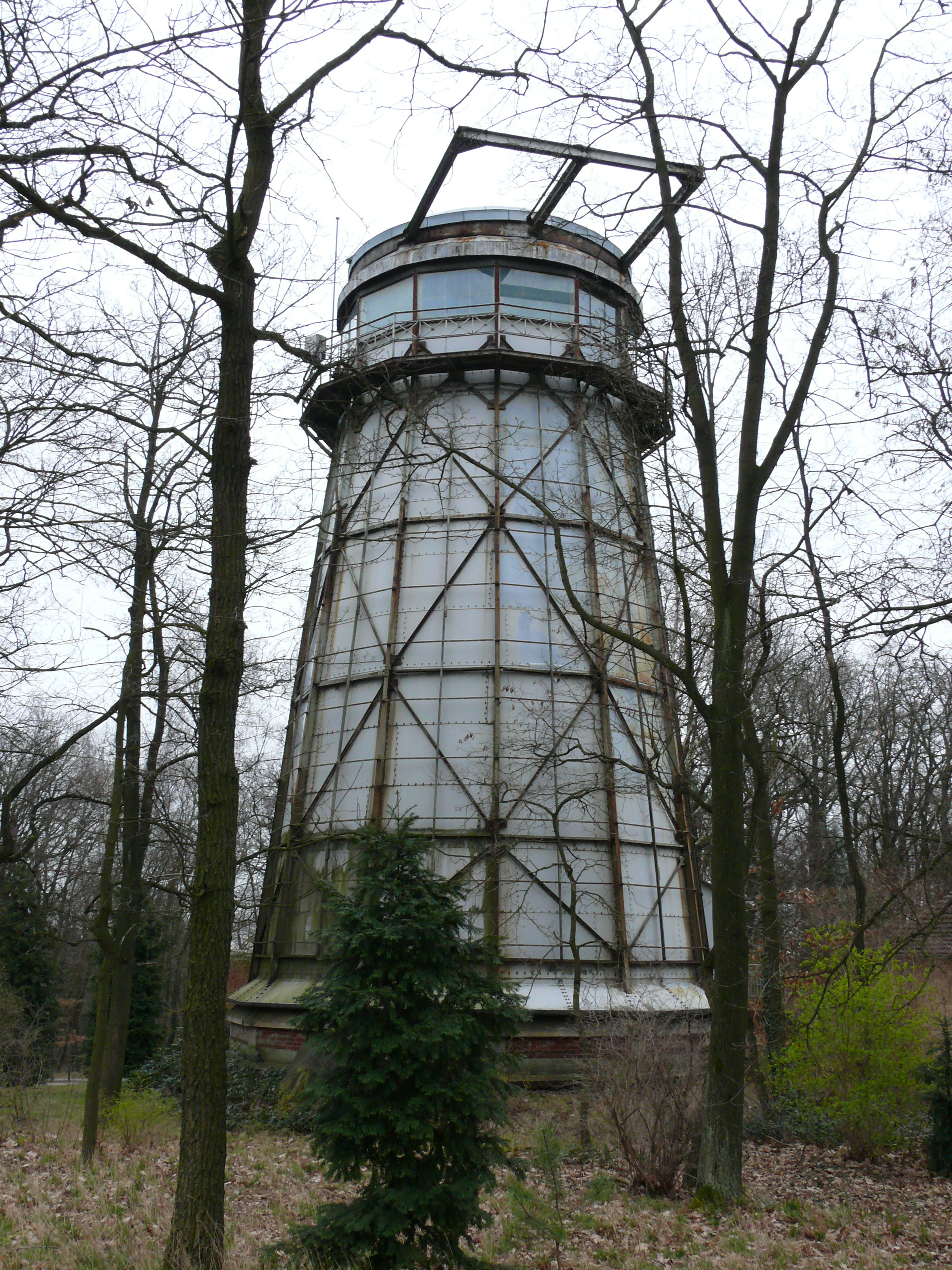 Helmert Tower on the hill Telegrafenberg in Potsdam